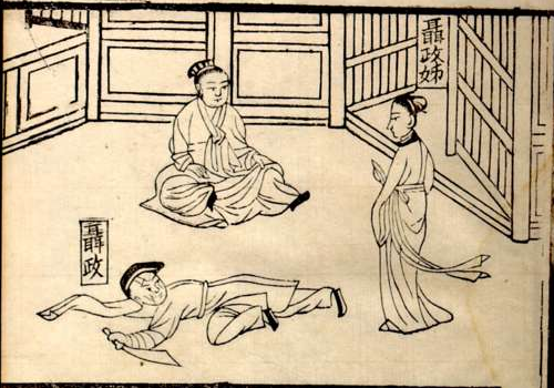 Nie Zheng/Nip Zing, an ancient Chinese assassinator.